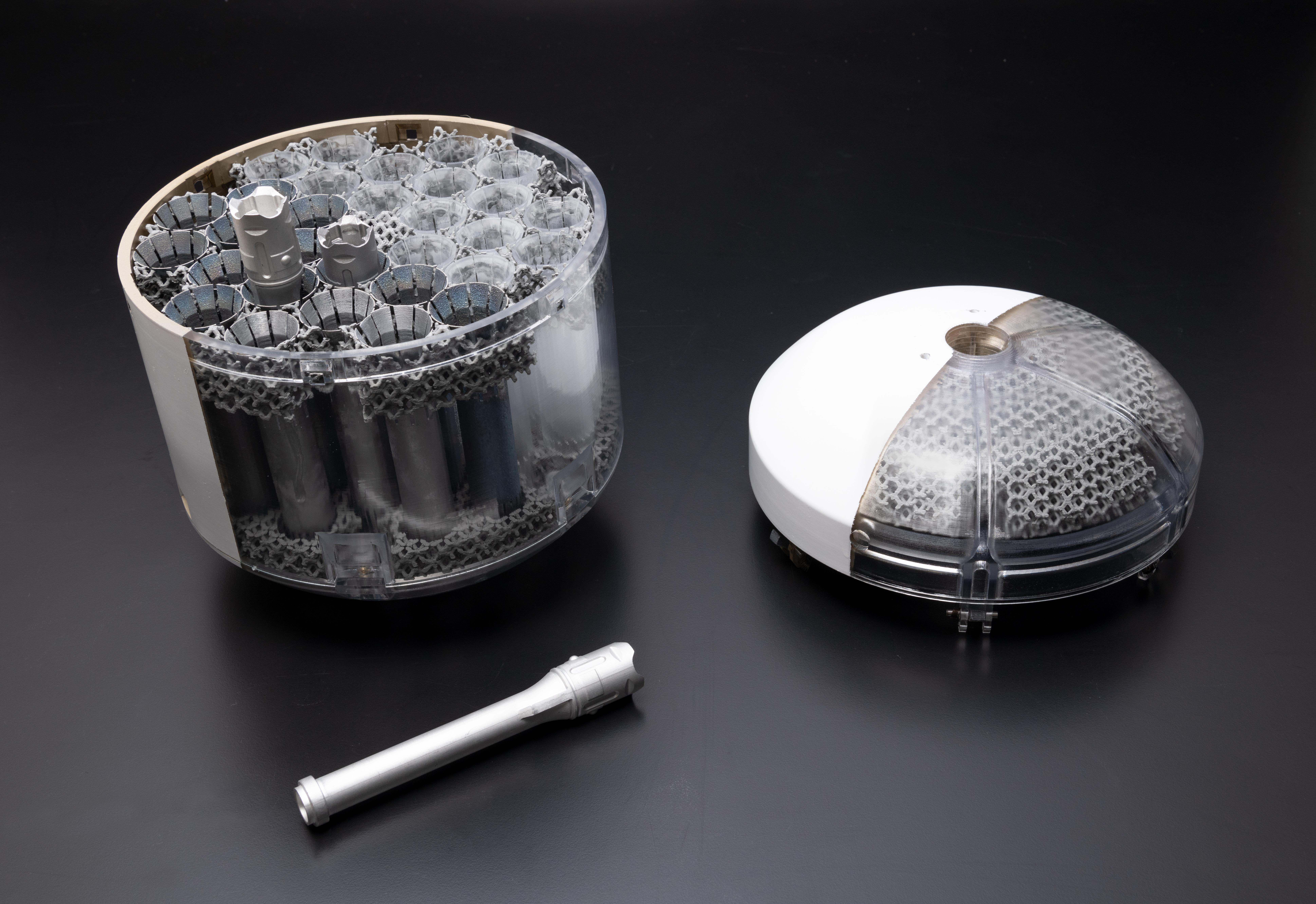 Mars - Sample Return - Orbiting Sample Container - Model Concept - February 25, 2020 PIA23712: Mars Sample Return Orbiting Sample Container Concept Model This image shows a concept model of NASA's orbiting sample container, which will hold tubes of Martian rock and soil samples that will be returned to Earth through a Mars sample return campaign. At right is the lid; bottom left sits a model of the sample-holding tube. The sample container will help keep contents at less than about 86 degrees Fahrenheit (30 degrees Celsius) to help preserve the Mars material in its most natural state. NASA and the European Space Agency (ESA) are solidifying concepts for a Mars sample return mission after NASA's Mars 2020 rover collects rock and soil samples and stores them in sealed tubes on the planet's surface for future return to Earth. In the new campaign, NASA will deliver a Mars lander in the vicinity of Jezero Crater, where Mars 2020 will have collected and cached samples. The lander will carry a NASA rocket (the Mars Ascent Vehicle) along with an ESA Sample Fetch Rover that is roughly the size of NASA's Opportunity Mars rover. The fetch rover will gather the cached samples and carry them back to the lander for transfer to an orbiting sample container embedded in the ascent vehicle; additional samples could also be delivered directly by Mars 2020. The ascent vehicle will then launch the container holding the samples into Mars orbit. ESA will put a spacecraft in orbit around Mars before the ascent vehicle launches. This spacecraft will rendezvous with the orbiting sample container and also carry a NASA payload that can capture and contain the sample container before returning the samples to Earth.